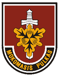 Insignia of the Lithuanian Great Hetman Jonušas Radvila Training Regiment